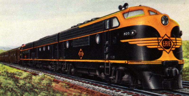 Depiction of an Erie Railroad EMD F3 locomotive from a 1951 pocket calendar.